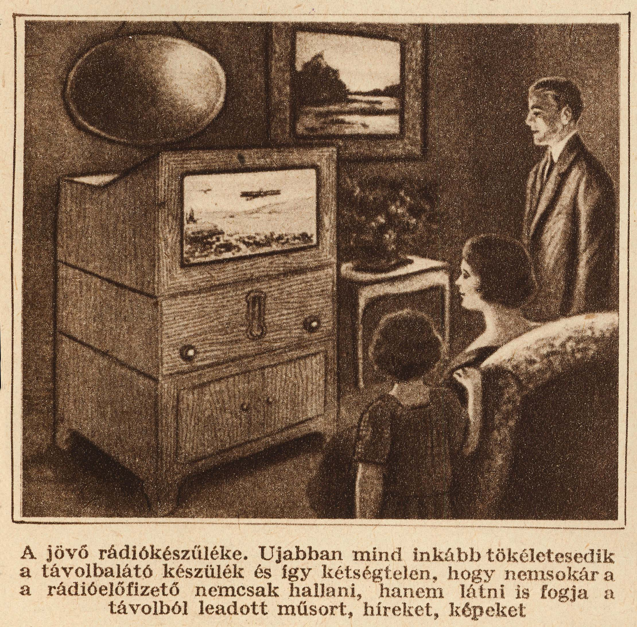 One of the first television, illustration (1928)